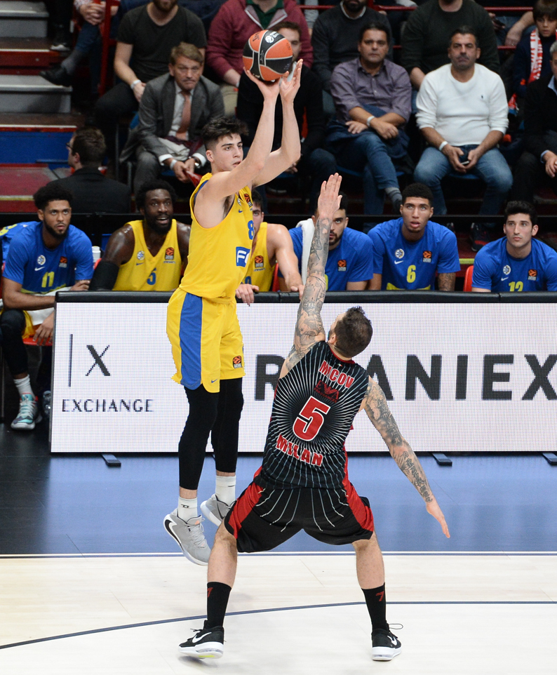 Foto a cura di Claudio Degaspari